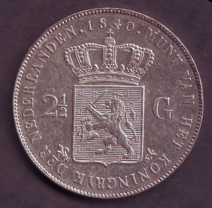 Rijksdaalder from the Netherlands, 1840, front side